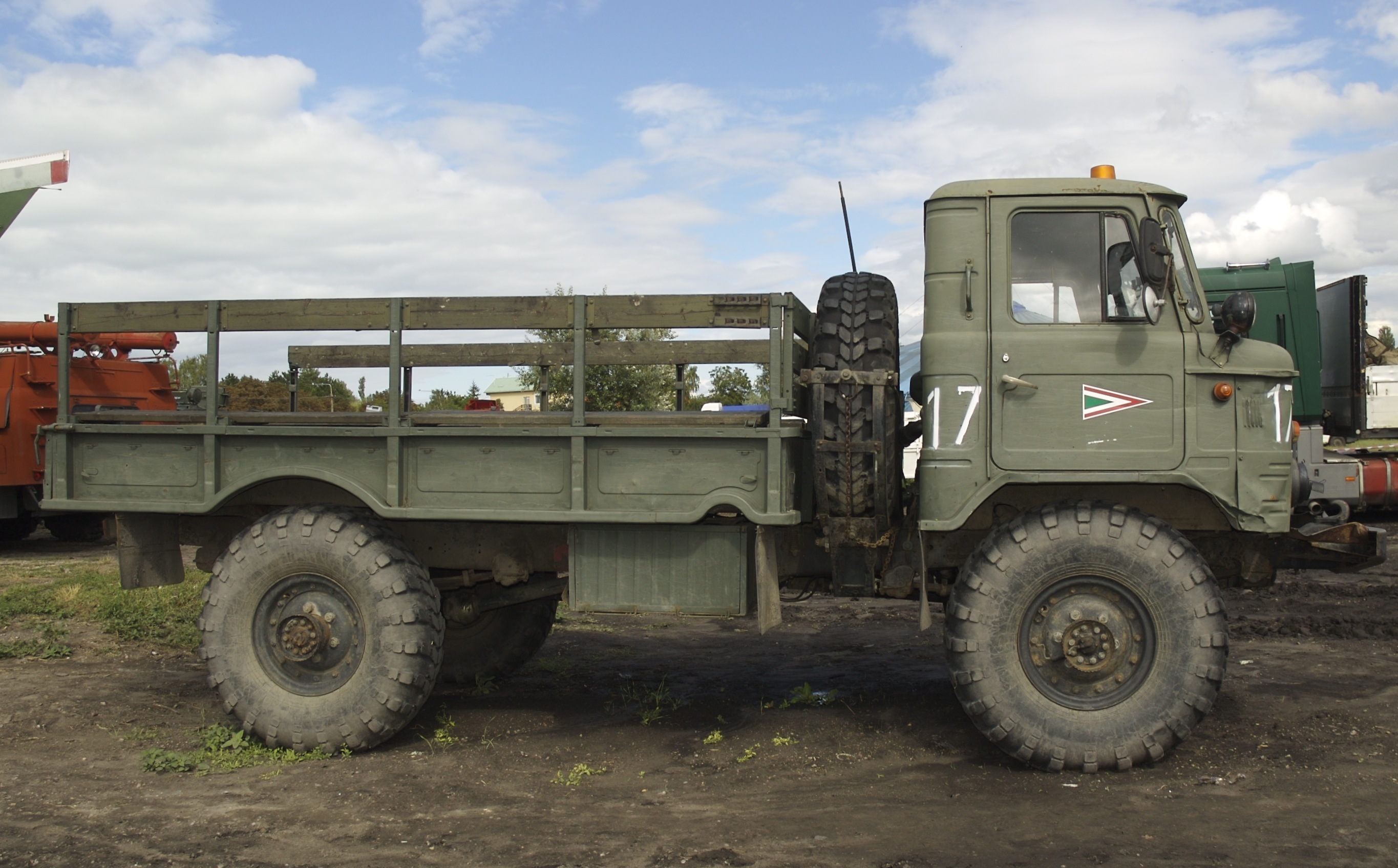 GAZ-66 truck with Hungarian marking, displayed at the Zamárdi Military Park (Zamárdi, Hungary)